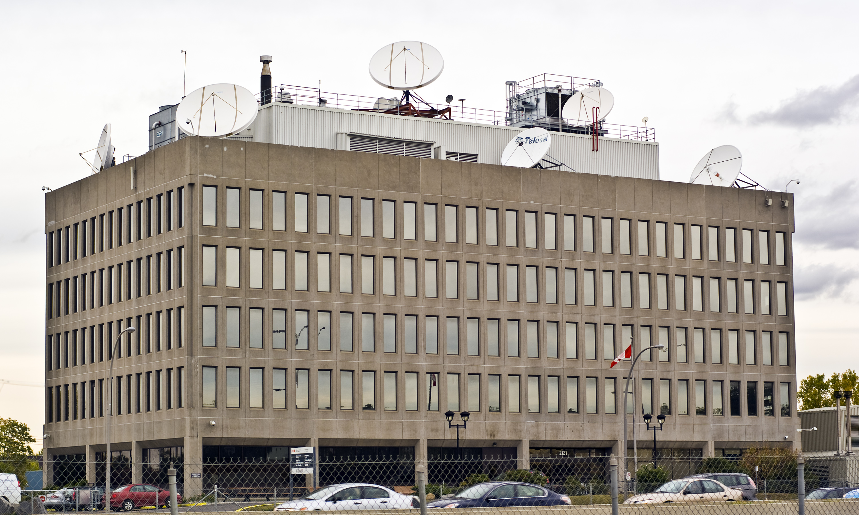 Canadian Meteorological Center, Dorval, Quebec, Canada